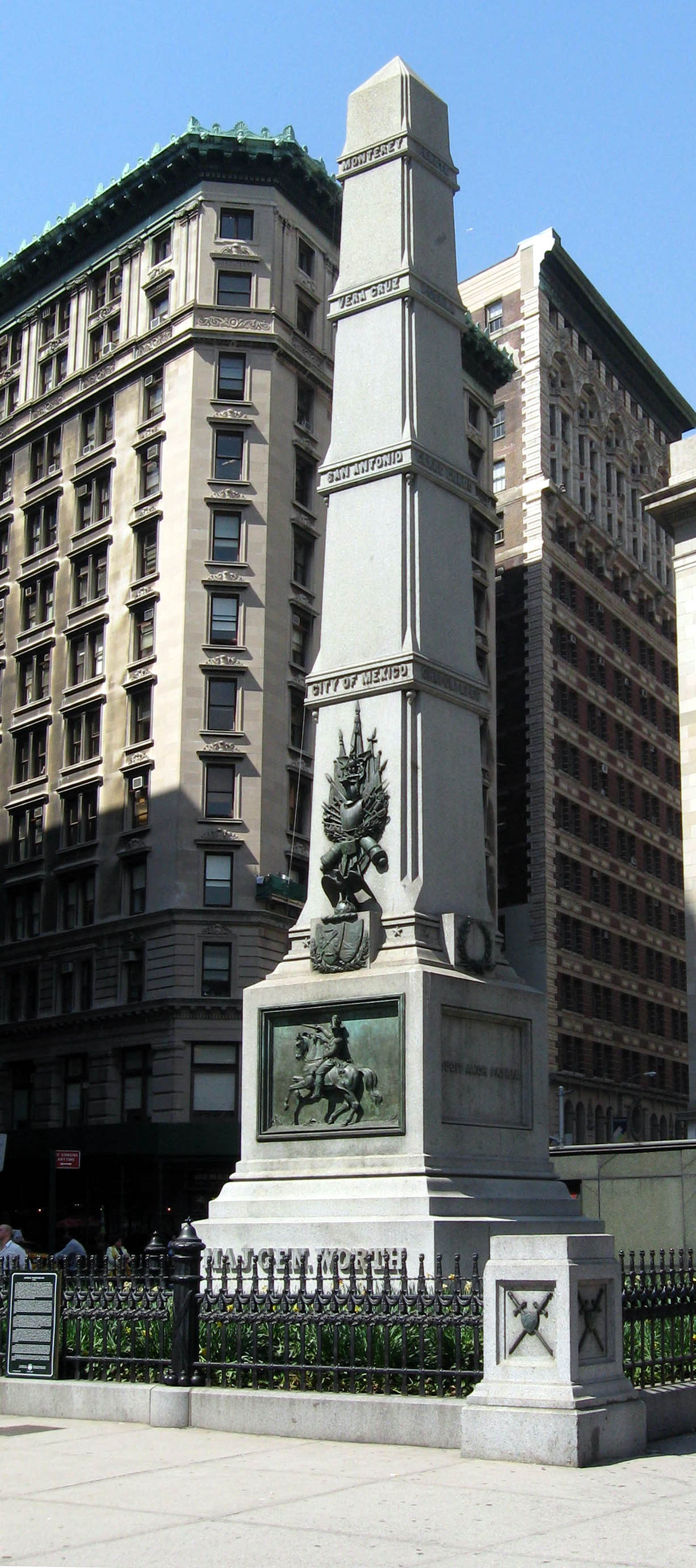 Looking northwest at Worth Square monument on a sunny afternoon in springtime